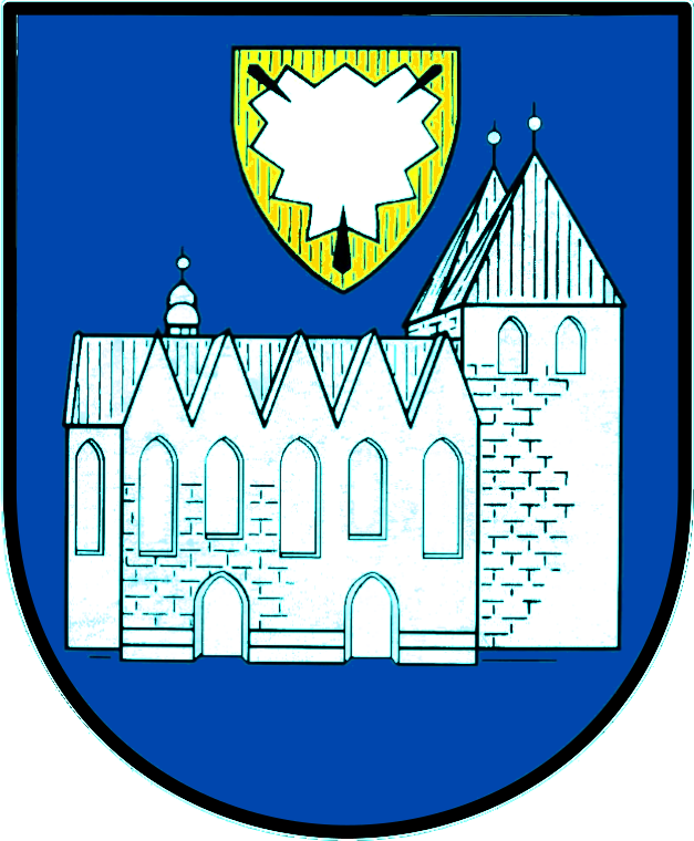 coat of arms of the city of Obernkirchen